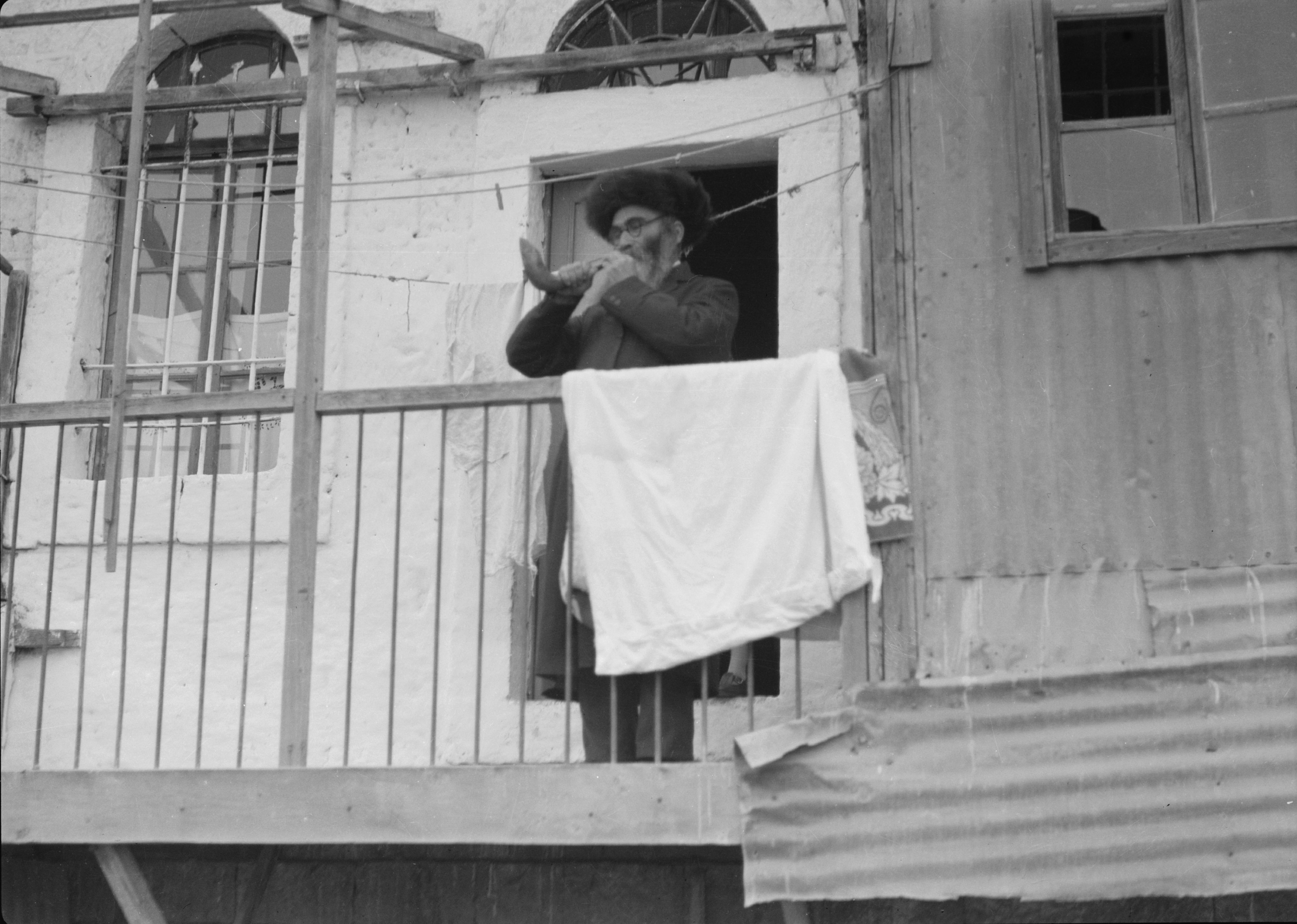 Title: "Blowing the Sabath horn" Abstract/medium: G. Eric and Edith Matson Photograph Collection Physical description: 1 negative